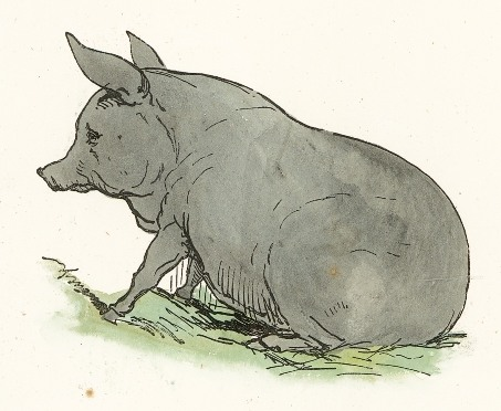 (Removed after reusableart request.)